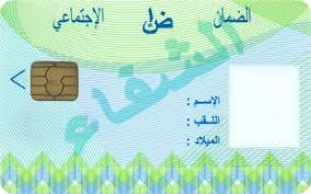 Health Insurance Card